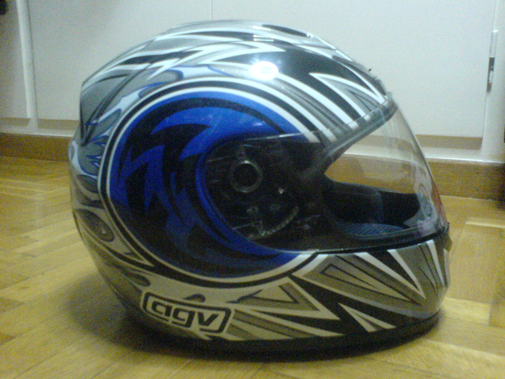 My AGV Helmet